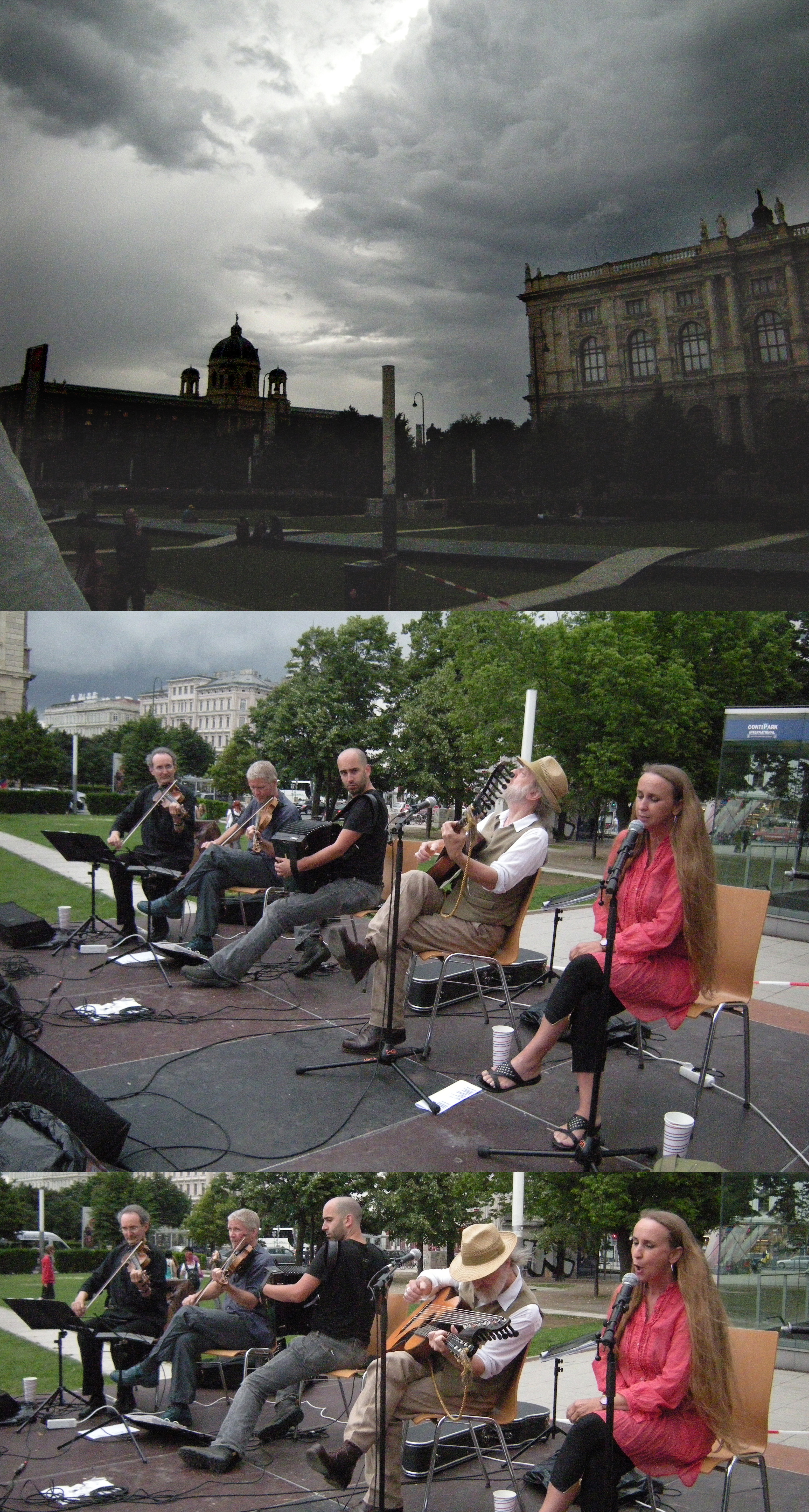 On occasion of a Category:Wiener Tafel event, some Austrian actors&singer-songwriters performed "open air", although weather was "somewhat less than 'welcoming'". The event happened in front of Vienna's MQ.